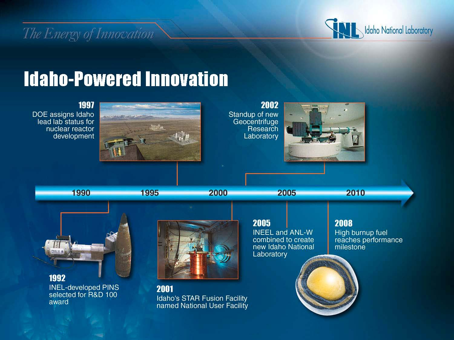 Idaho National Laboratory's history of innovation, part 3.